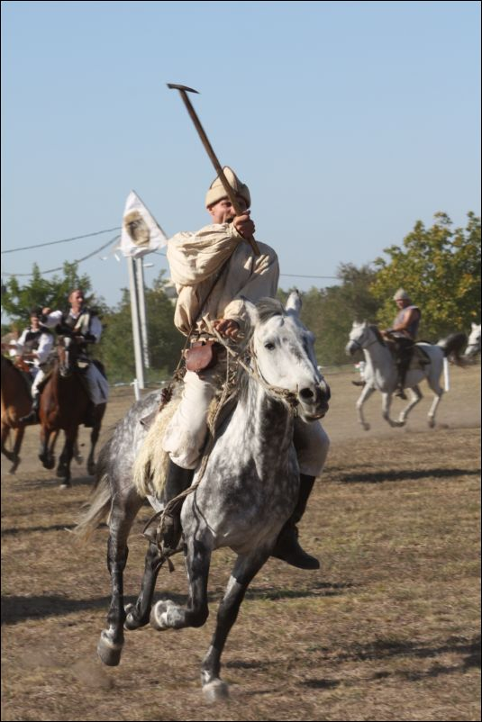 Kunok harcos / Cuman warrior swinging balta axt on horseback. First World Meeting of Cumanians - Nagykunság 2009.09.24-27.